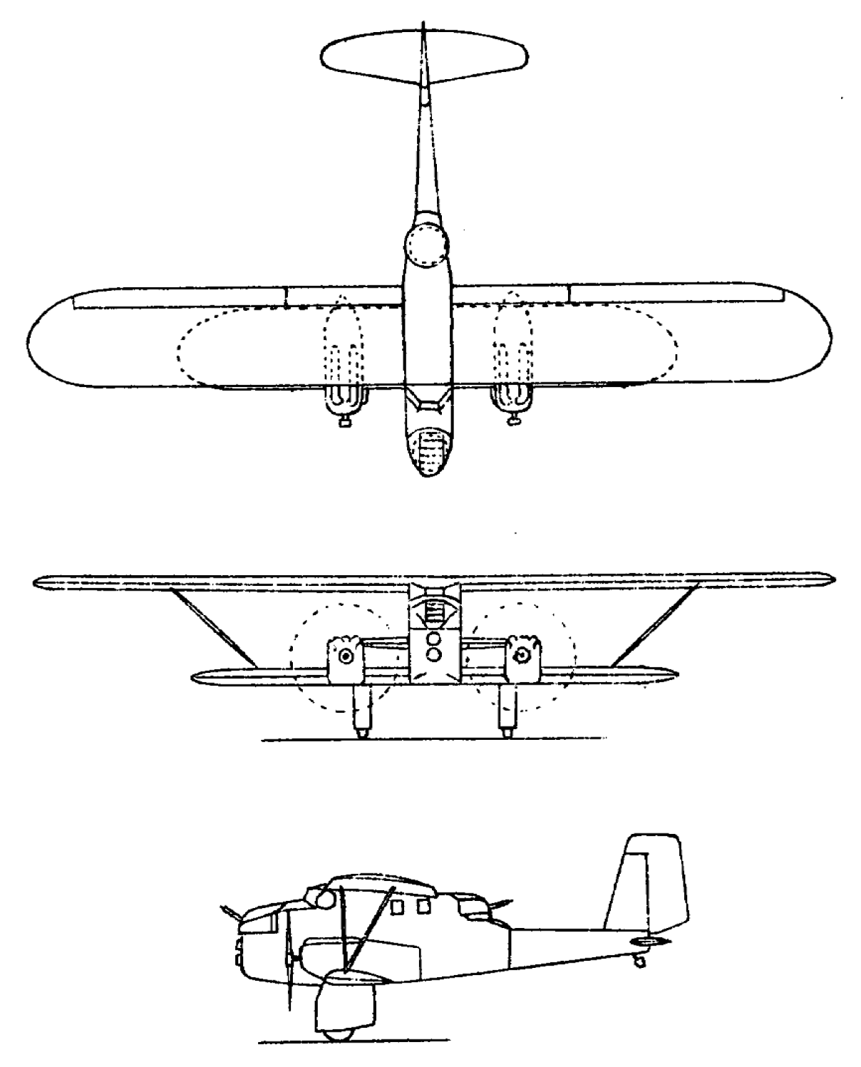 Breguet 410 3-view drawing from NACA-AC-163